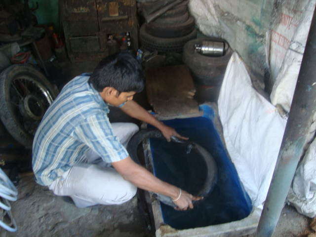 Checking the puncture in rubber tube